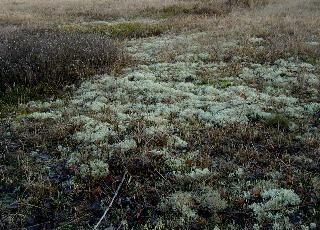 Heath in Denmark with species cladonia, empetrum and calluna